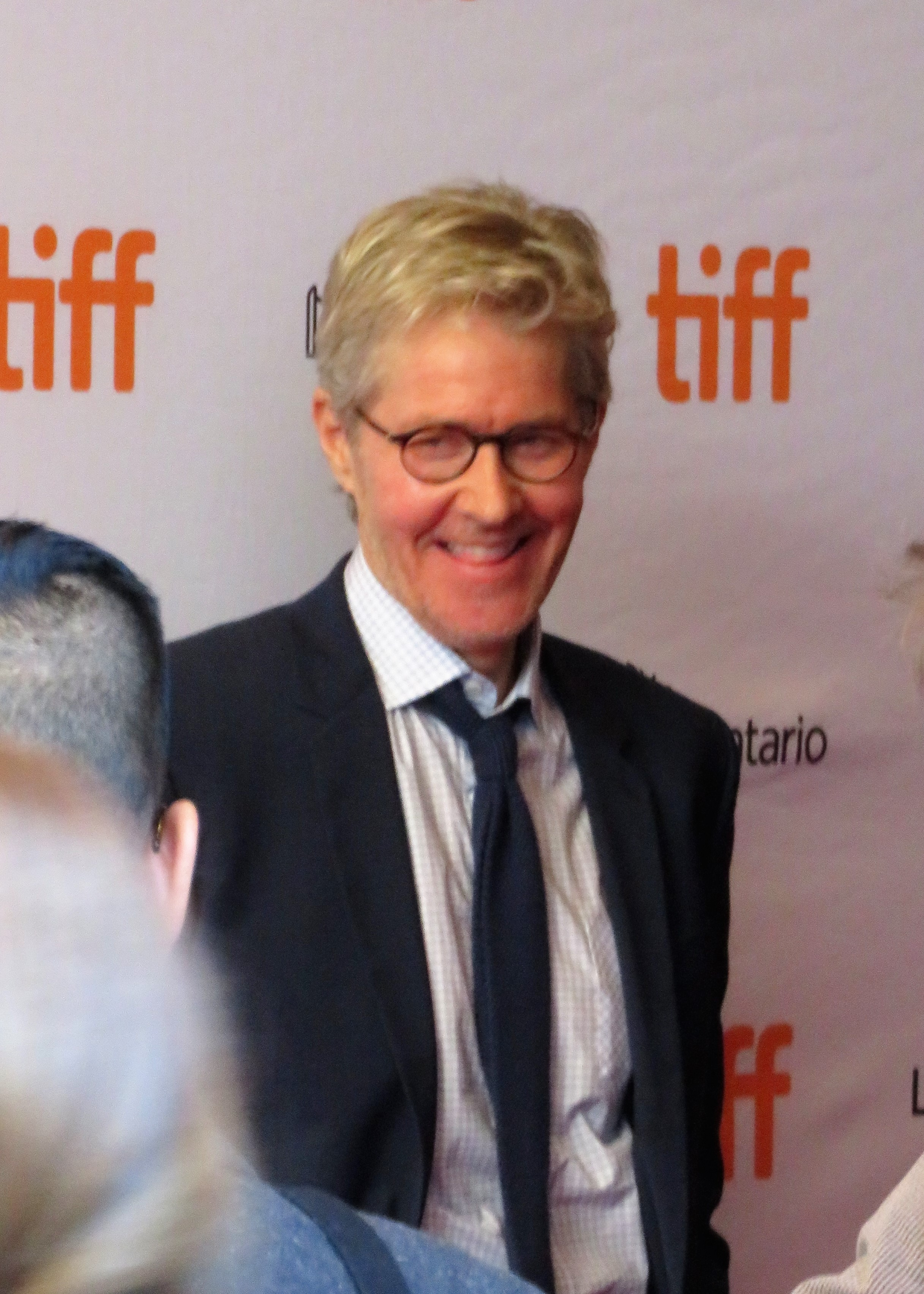 J.C. MacKenzie at the premiere of Molly's Game, 2017 Toronto Film Festival